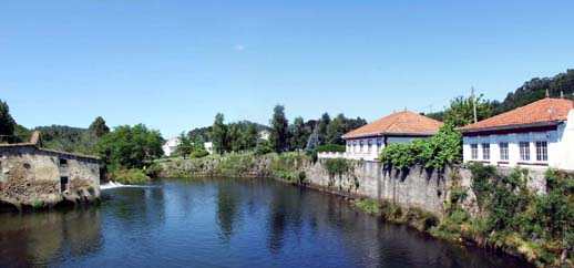 Xuvia River and textil factory in Ferrol-Neda (A Coruña)